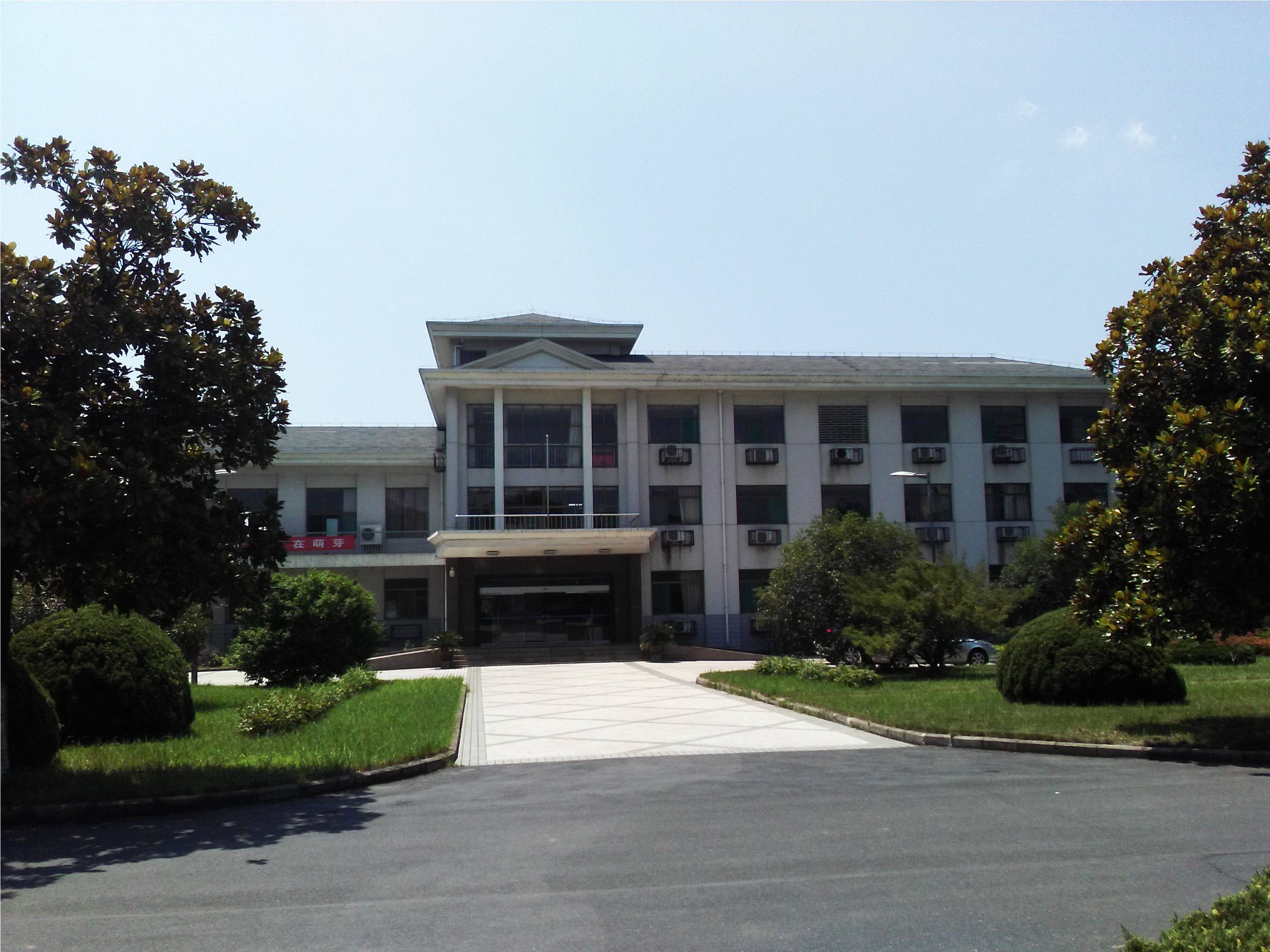 Administrative Building of the Institute of Solid State Physics, Chinese Academy of Sciences, Hefei, China